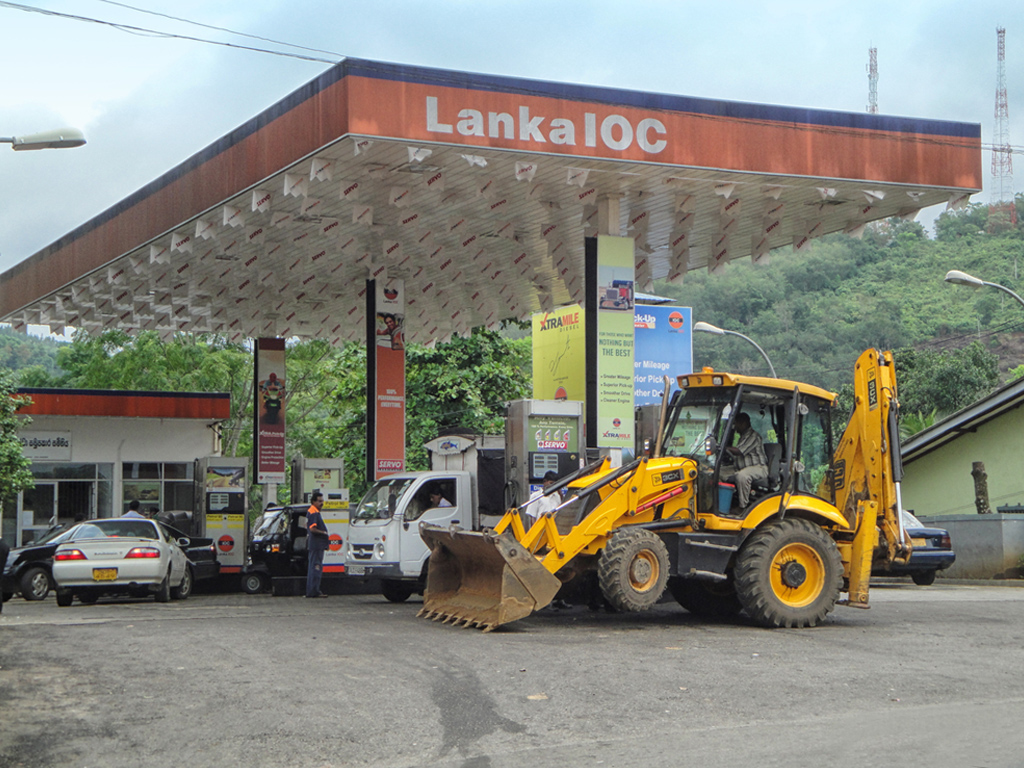 Ingiriya Administration03